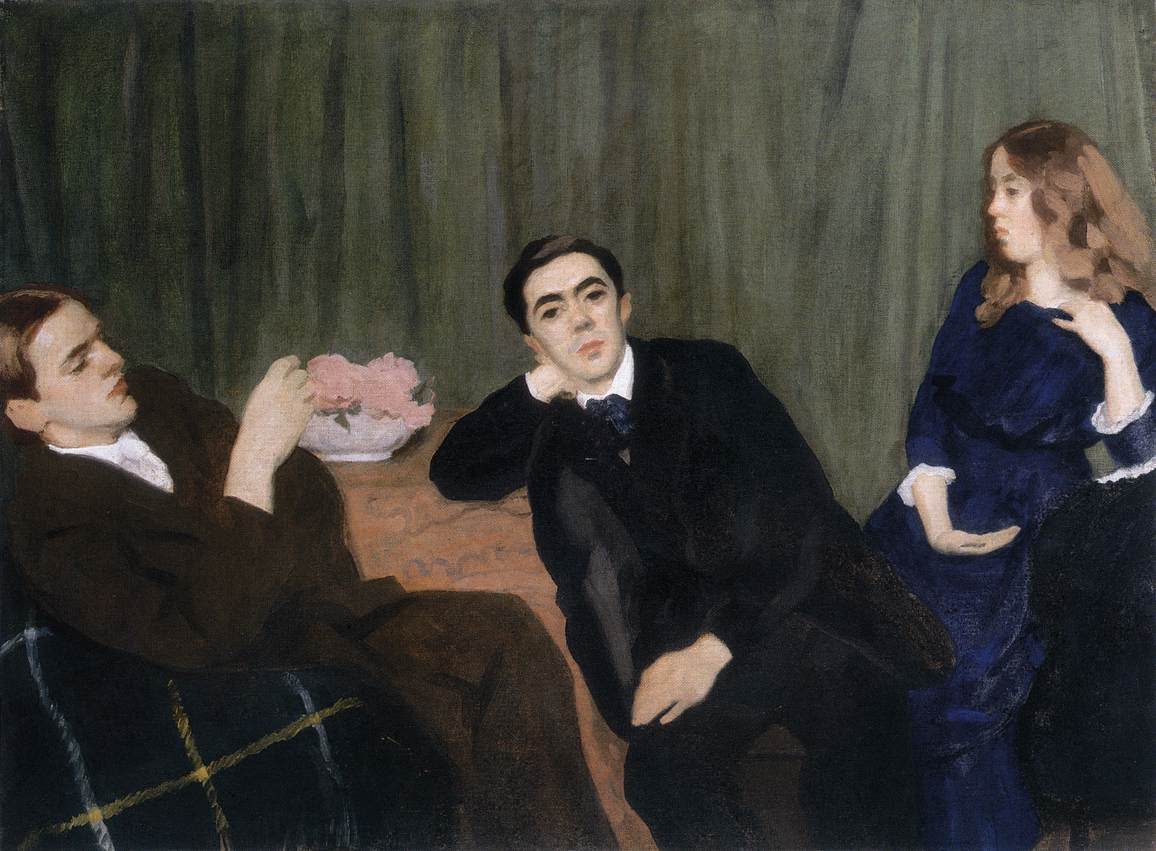 Portraits of the artist's children